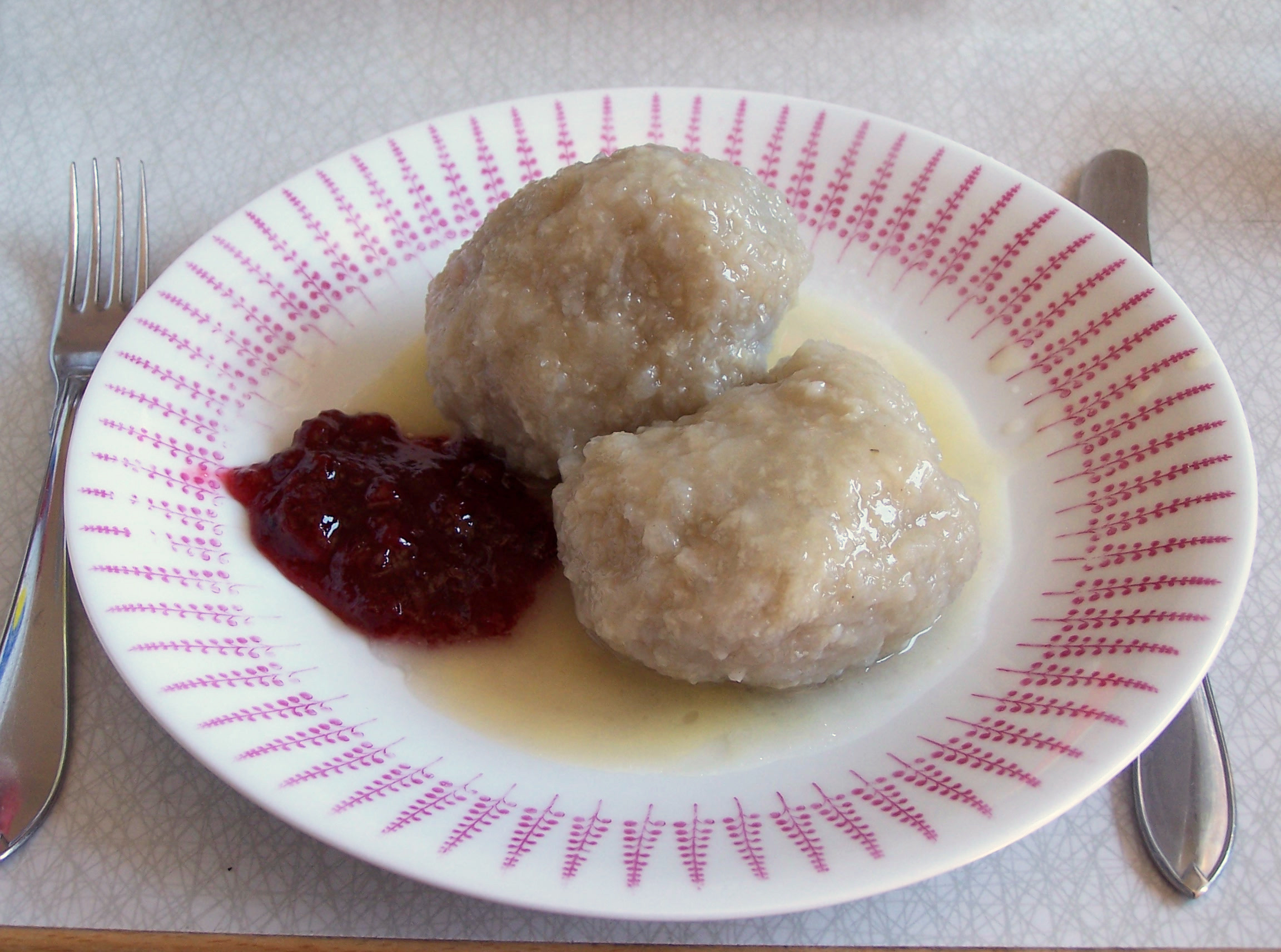 "Kroppkaka" (Sort of potato dumpling with baconcubes and onion inside) from Blekinge, Sweden. Served with lingonberries and melted butter.